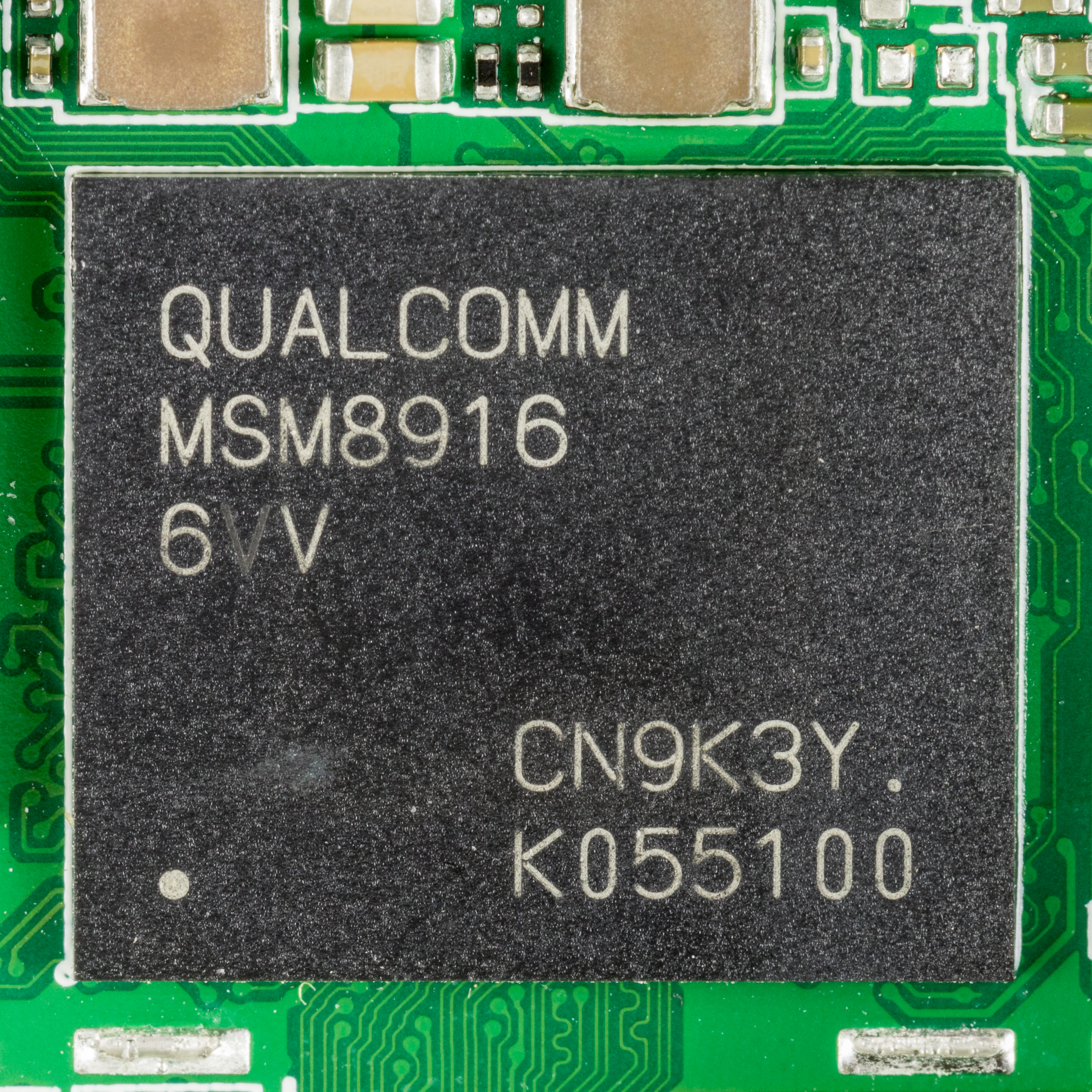 Wileyfox Swift - main board - Qualcomm MSM8916 - Snapdragon 410 - Multi-core Application Processor with Modem